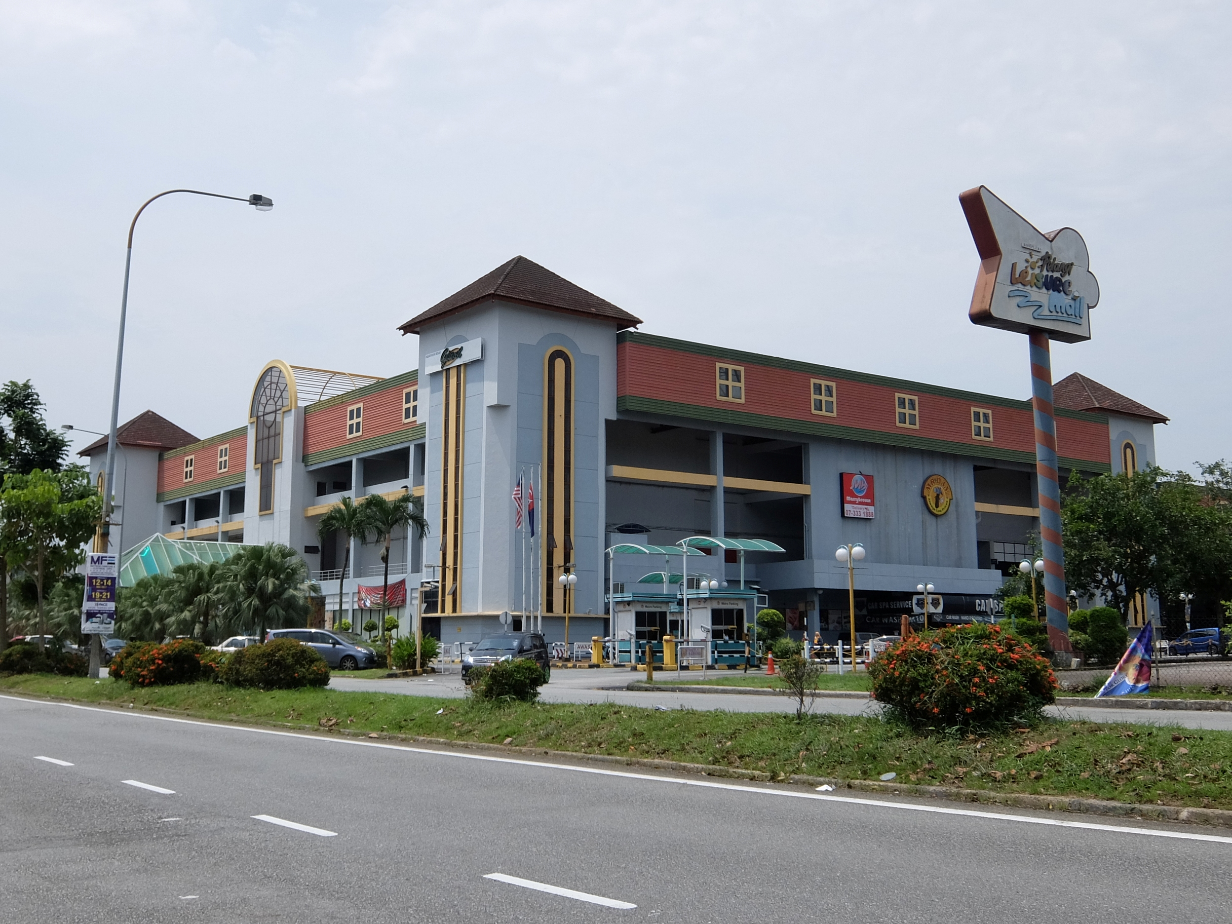 Pelangi Leisure Mall, Taman Pelangi, Johor Bahru, Johor, Malaysia